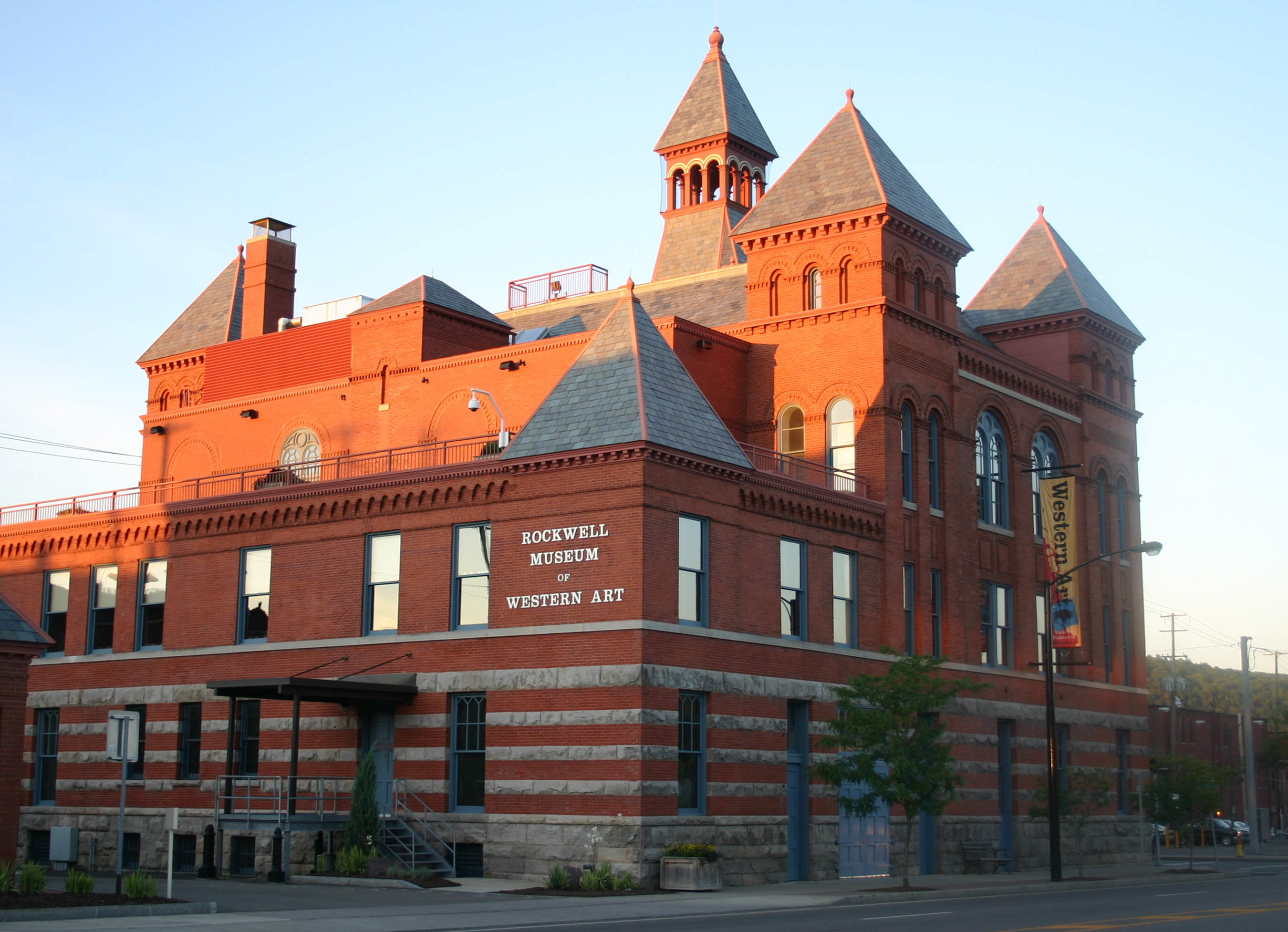 Rockwell Museum of Western Art — in Corning, New York. Image copyleft: Image taken by me, released under GFDL Pollinator 03:55, Nov 9, 2004 (UTC)